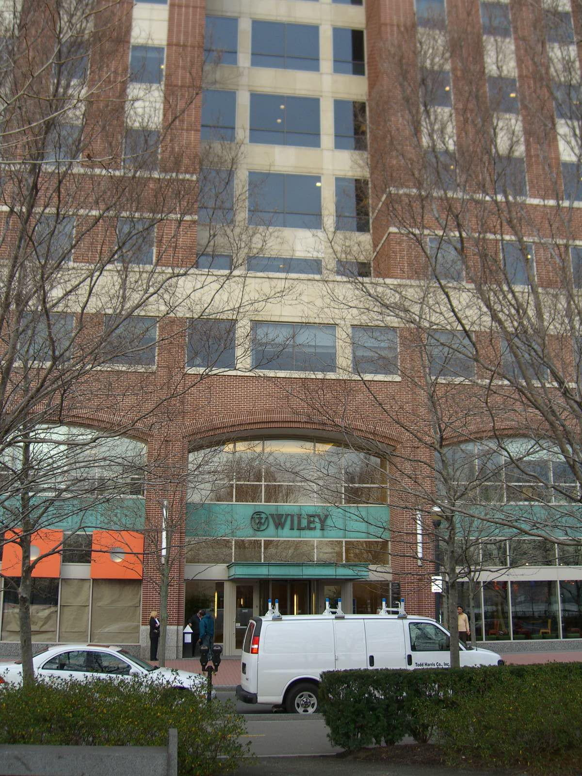 The Wiley Building in Hoboken, New Jersey, home to the Wiley Publishing company, as seen on January 3, 2007. This photo was created by Luigi Novi. It is not in the public domain, and use of this file outside of the licensing terms is a copyright violation.